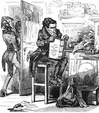 Punch Magazine cartoon from 1848